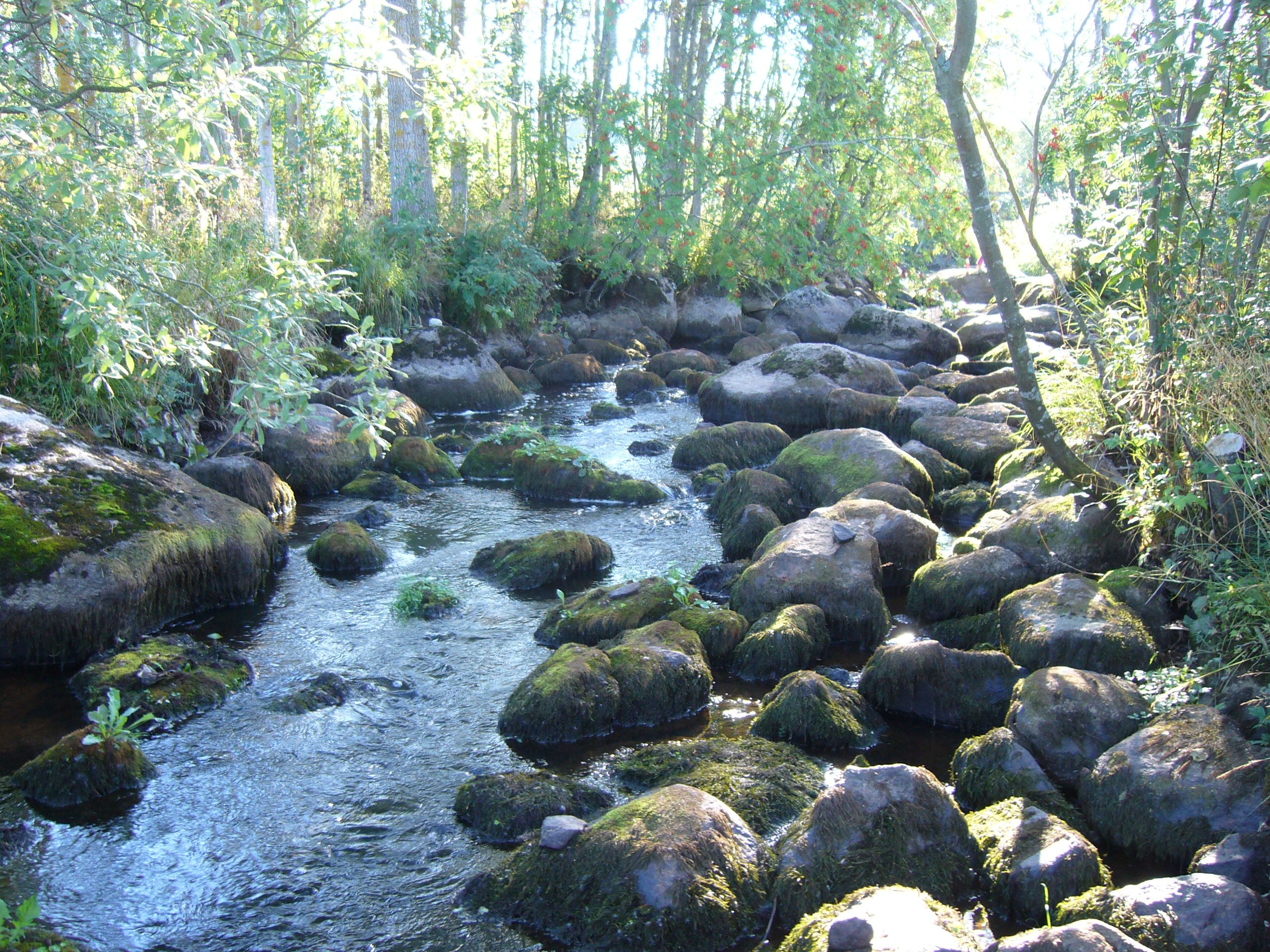 River of Koskutjoki in Jalasjärvi, Finland.